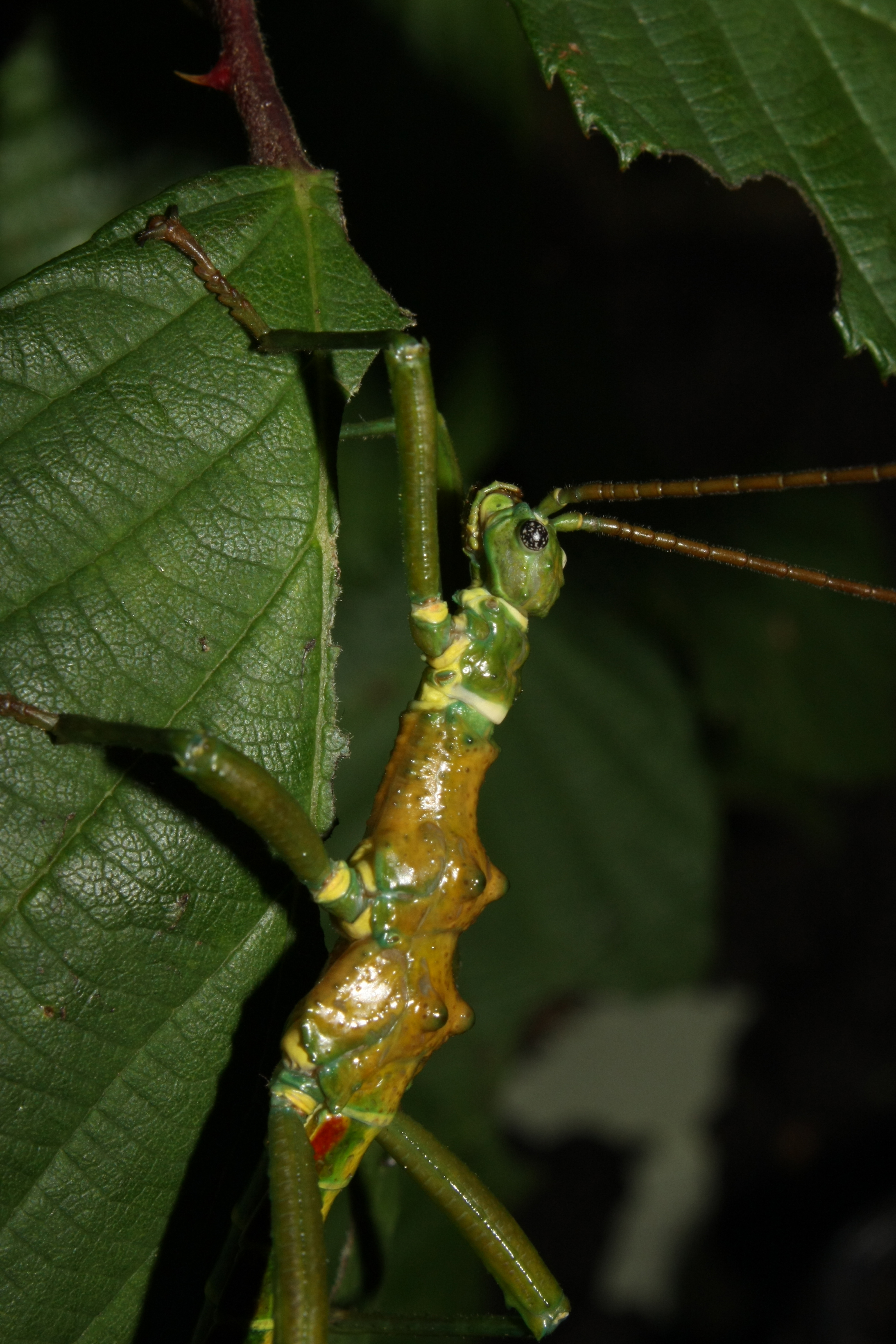 portrtait of a male of Mearnsiana bullosa